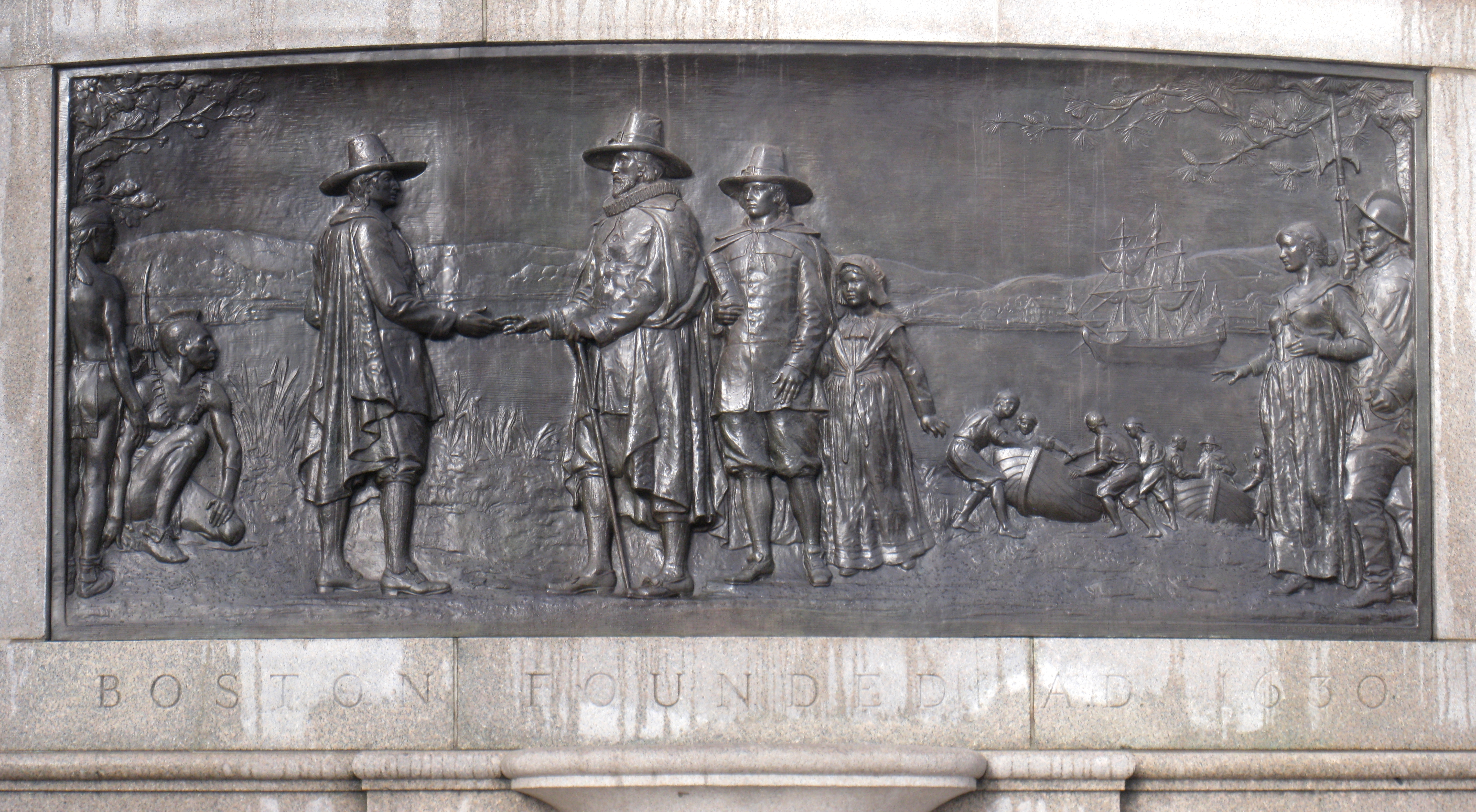 Founders Memorial on the Boston Common, Boston, Massachusetts, USA.